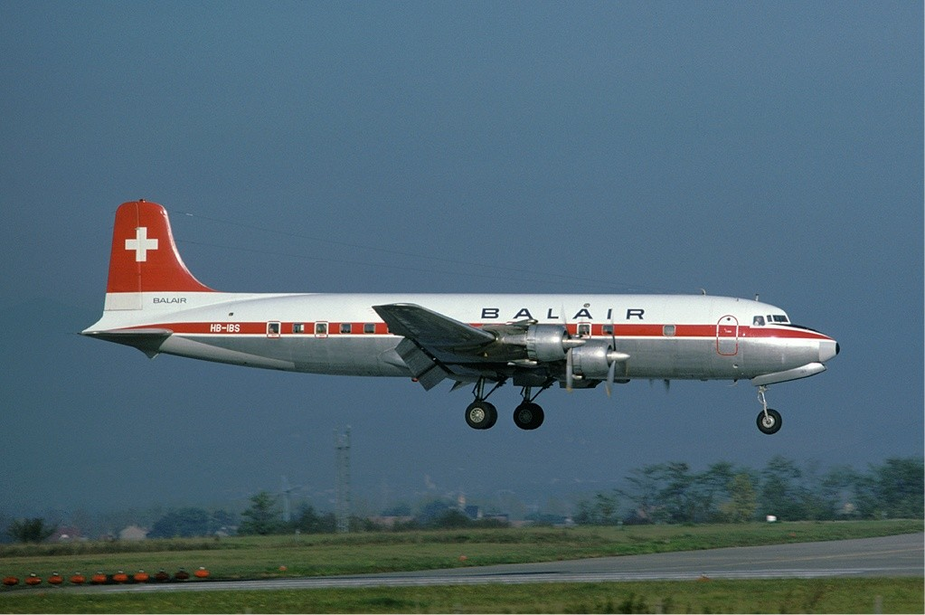 A Douglas DC-6B of Balair at Basle Airport